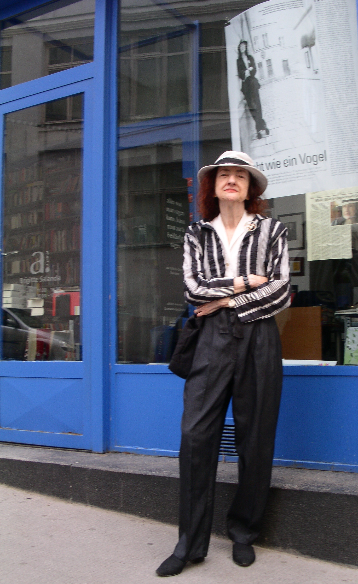 Portrait of Elfriede Gerstl